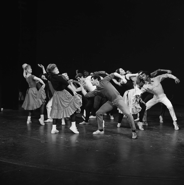 Dance from the musical West Side Story in the first Norwegian production at the Norwegian Theatre in 1965. In front of the ensemble: Sølvi Wang and Rikki Septimus.